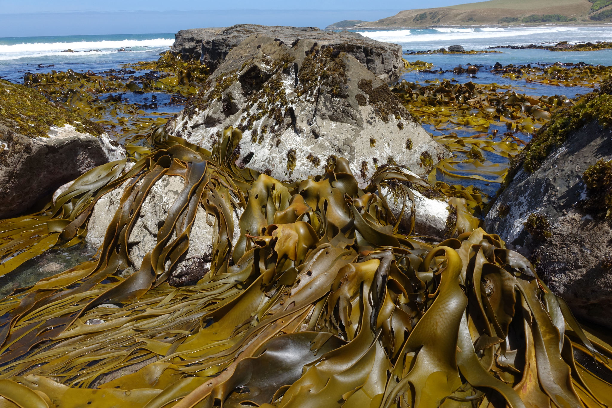 Durvillaea poha at Purakanui Bay, Otago